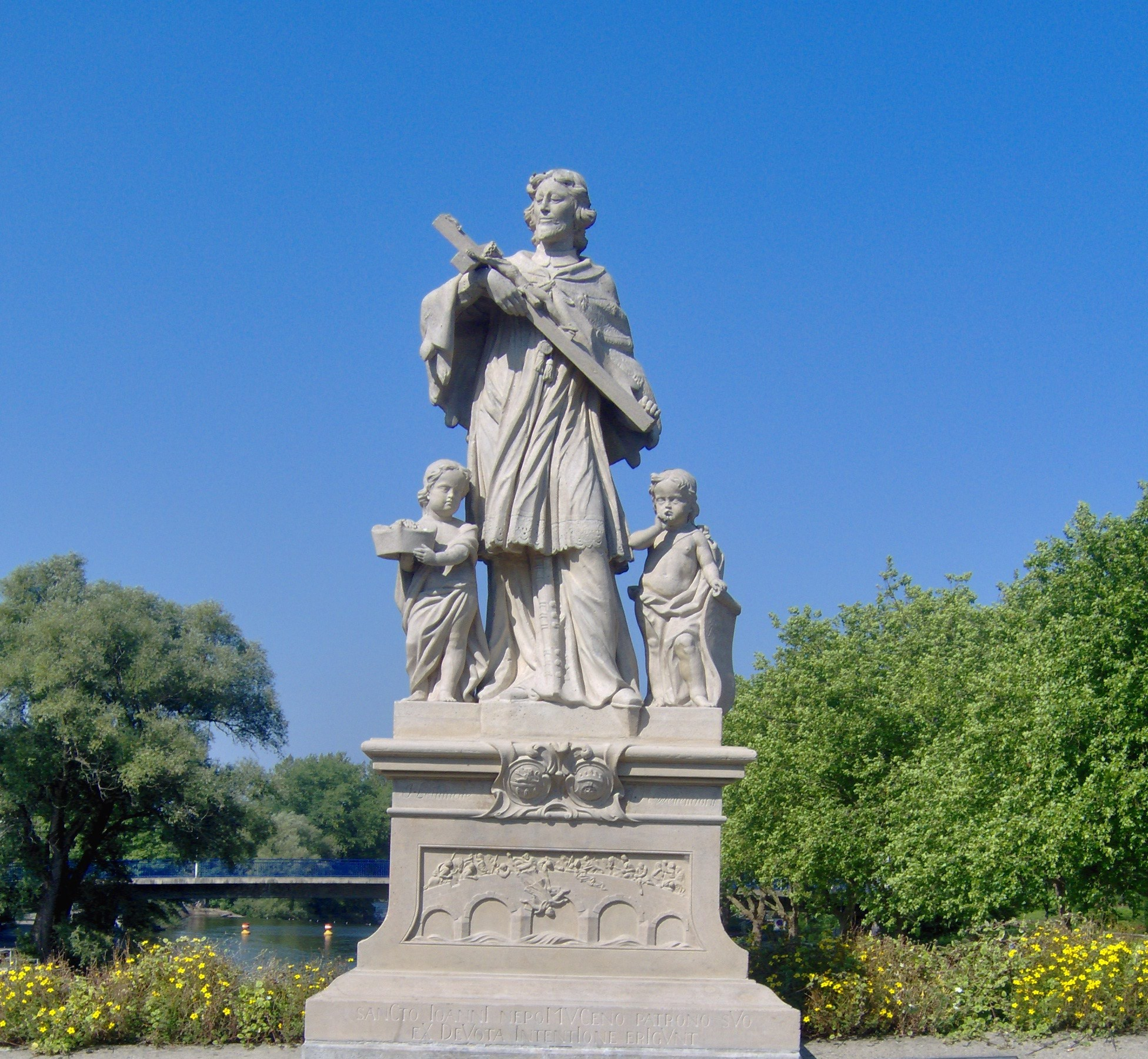 Statue of John of Nepomuk at the Ems river in Rheine, North Rhine-Westphalia, Germany